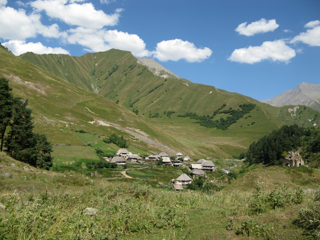 Village Edisa